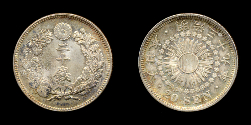 20sen-M39